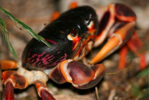 The black crab (Gecarcinus ruricola, black morph)